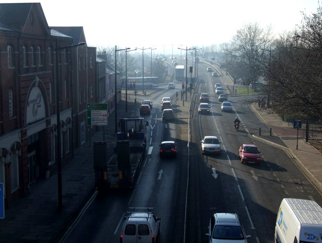 The A15, Lincoln Looking southwards to the flyover, which straddles the railway lines. The bus and railway stations are to the right.